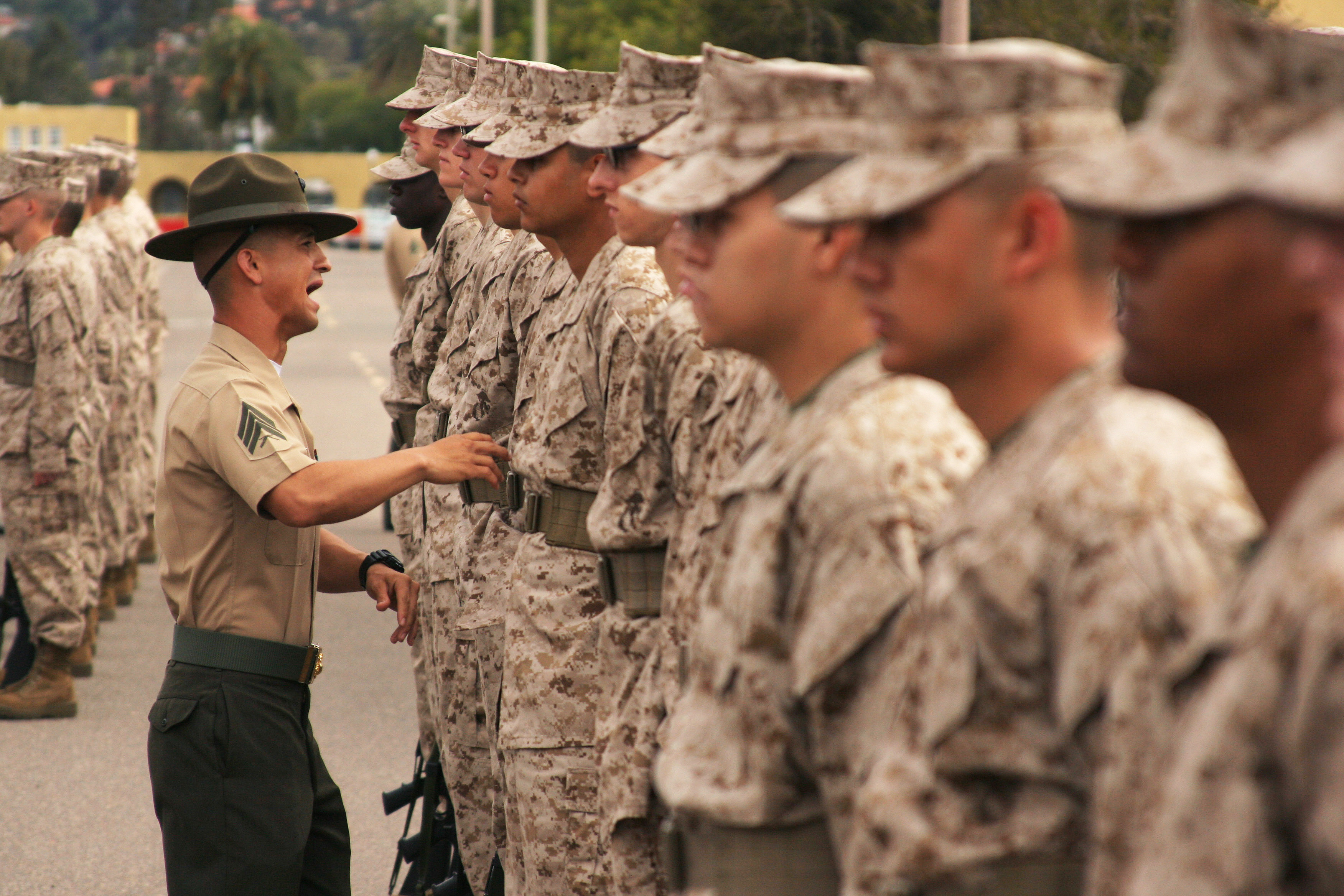 Marine recruits of Company A, 1st Recruit Training Battalion, stand in formation for a uniform inspection by a drill instructor at Marine Corps Recruit Depot San Diego, Calif., on April 5, 2013. Examination of the recruit’s uniforms, weapons, and Marine Corps knowledge are some of the items drill instructors test during inspection.